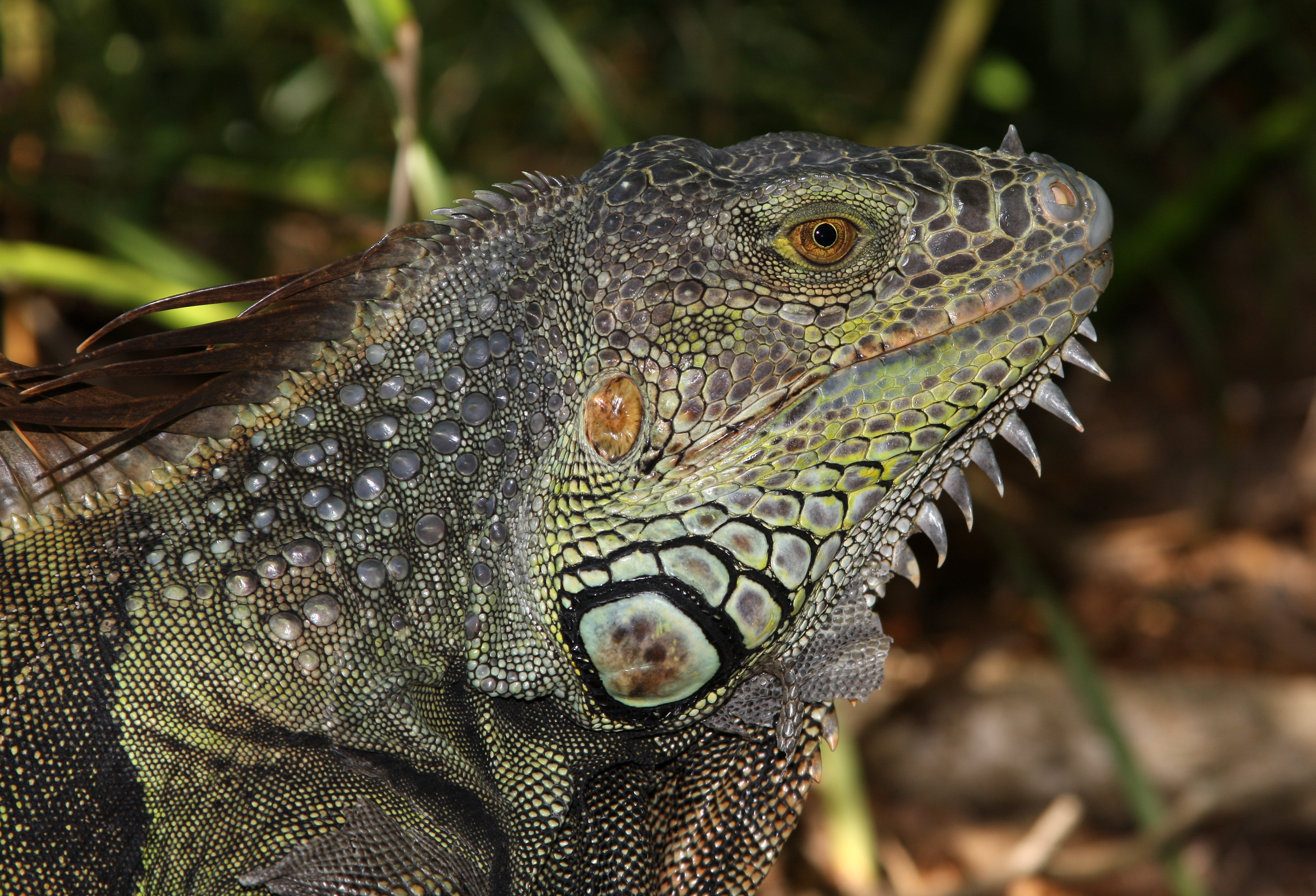 Adult male iguana (Iguana iguana) in Morikami Gardens, Delray Beach, Florida